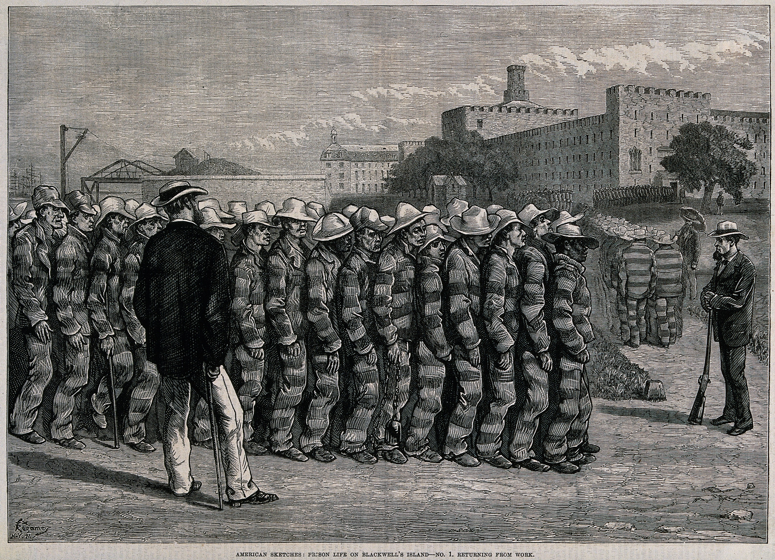 Lines of men in prisoner's uniform are marching towards a building as men with rifles watch over them. Wood engraving after Regamey. Iconographic Collections